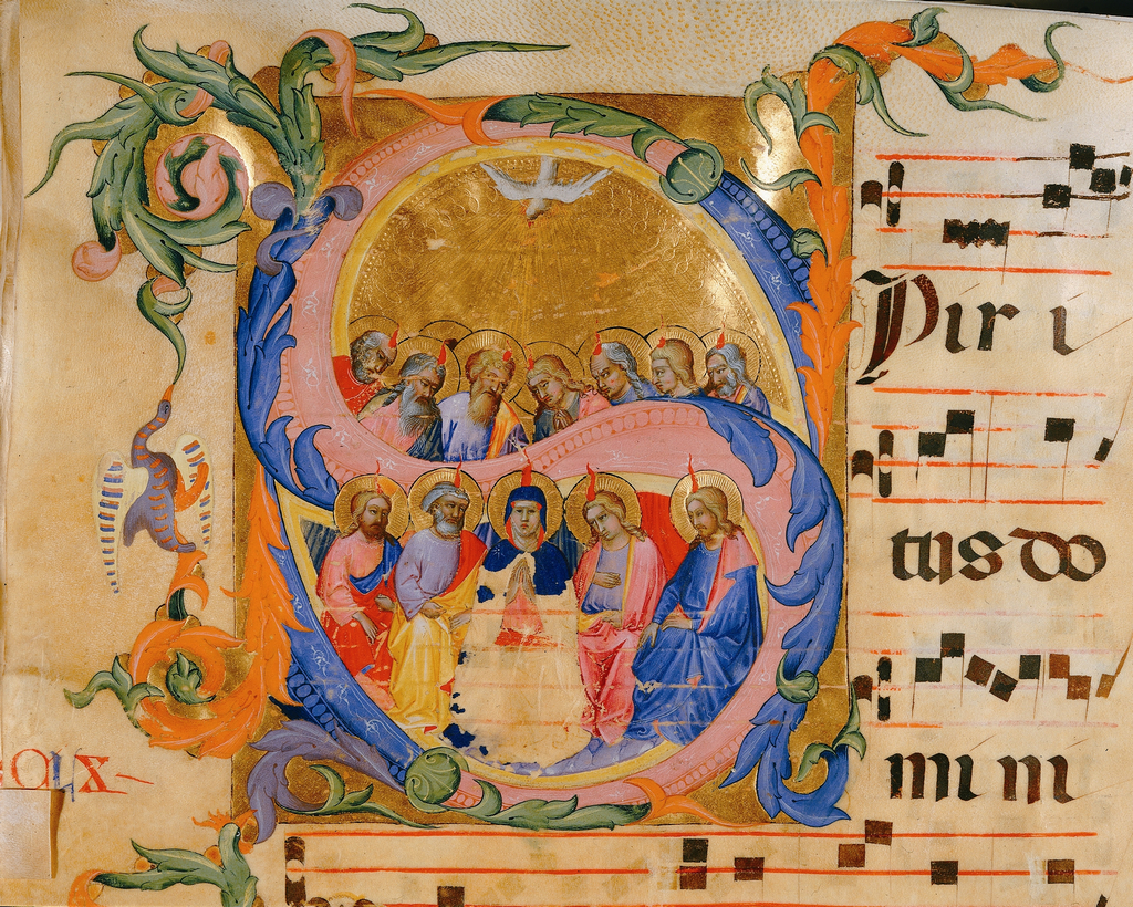 Lorenzo Monaco, Pentecost, c.160v, ca.1390, Bologna, Museo Civico Medievale, MS 539